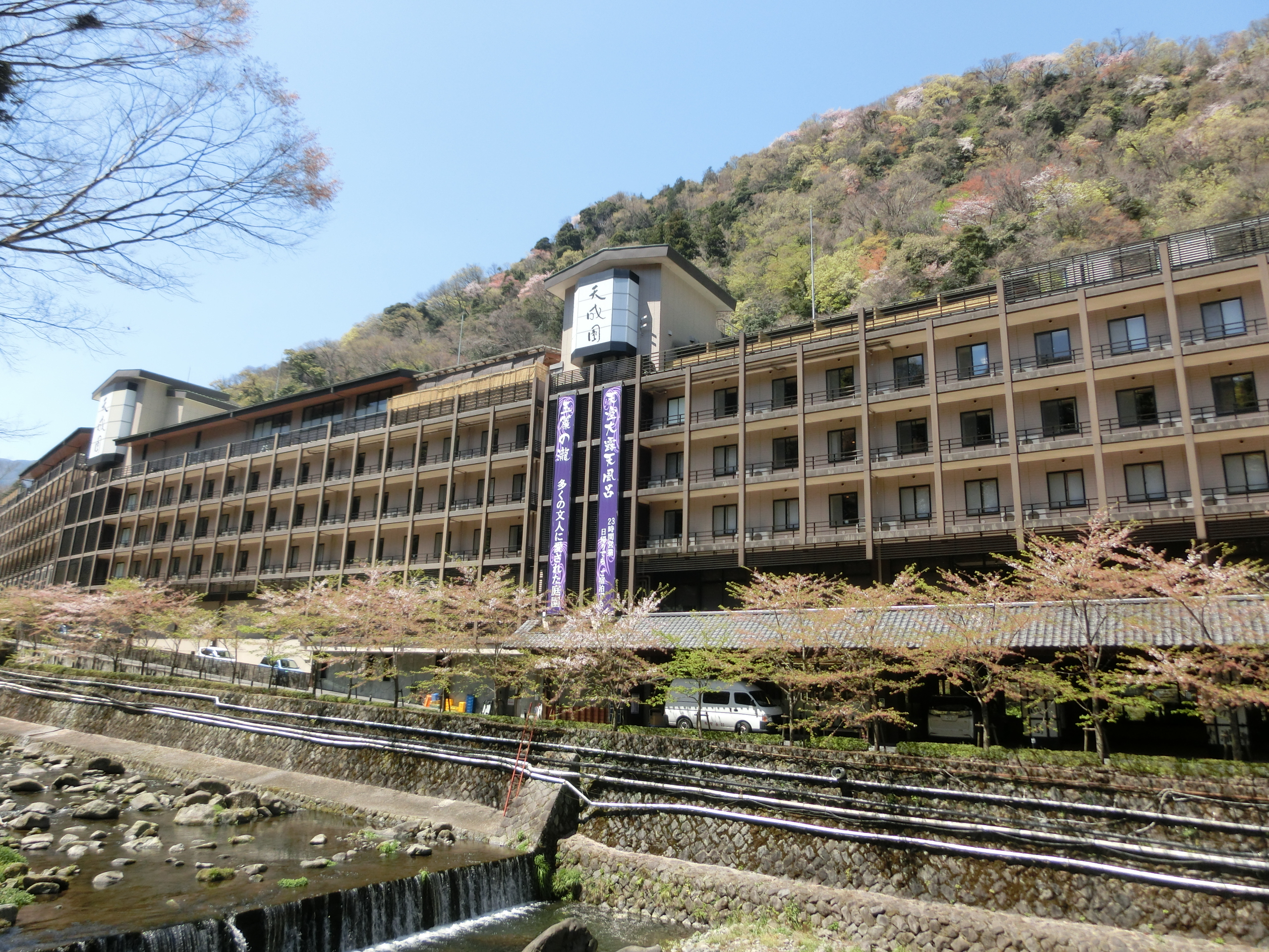 Hakone Yumoto Onsen Tenseien